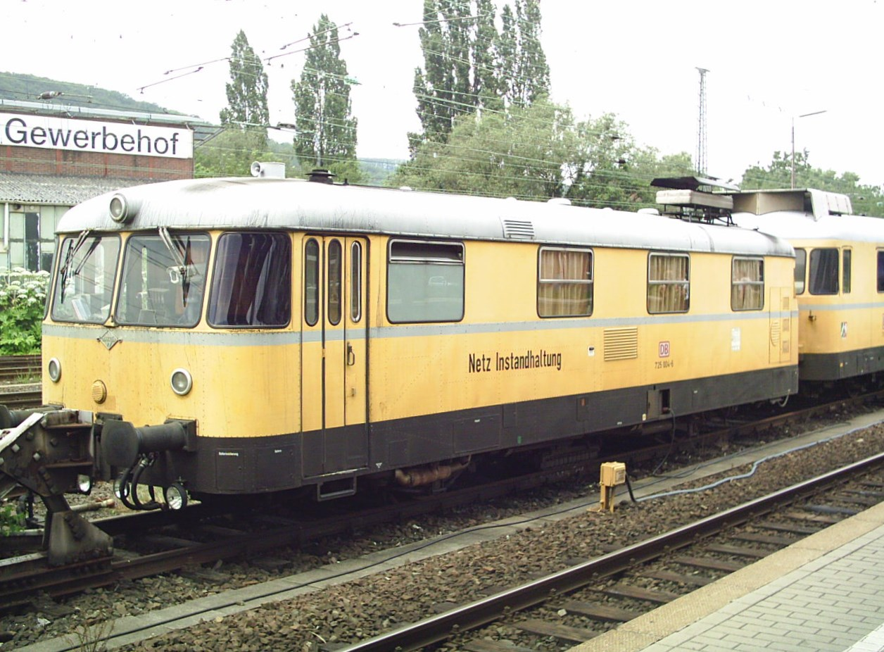 Class 725 check usage